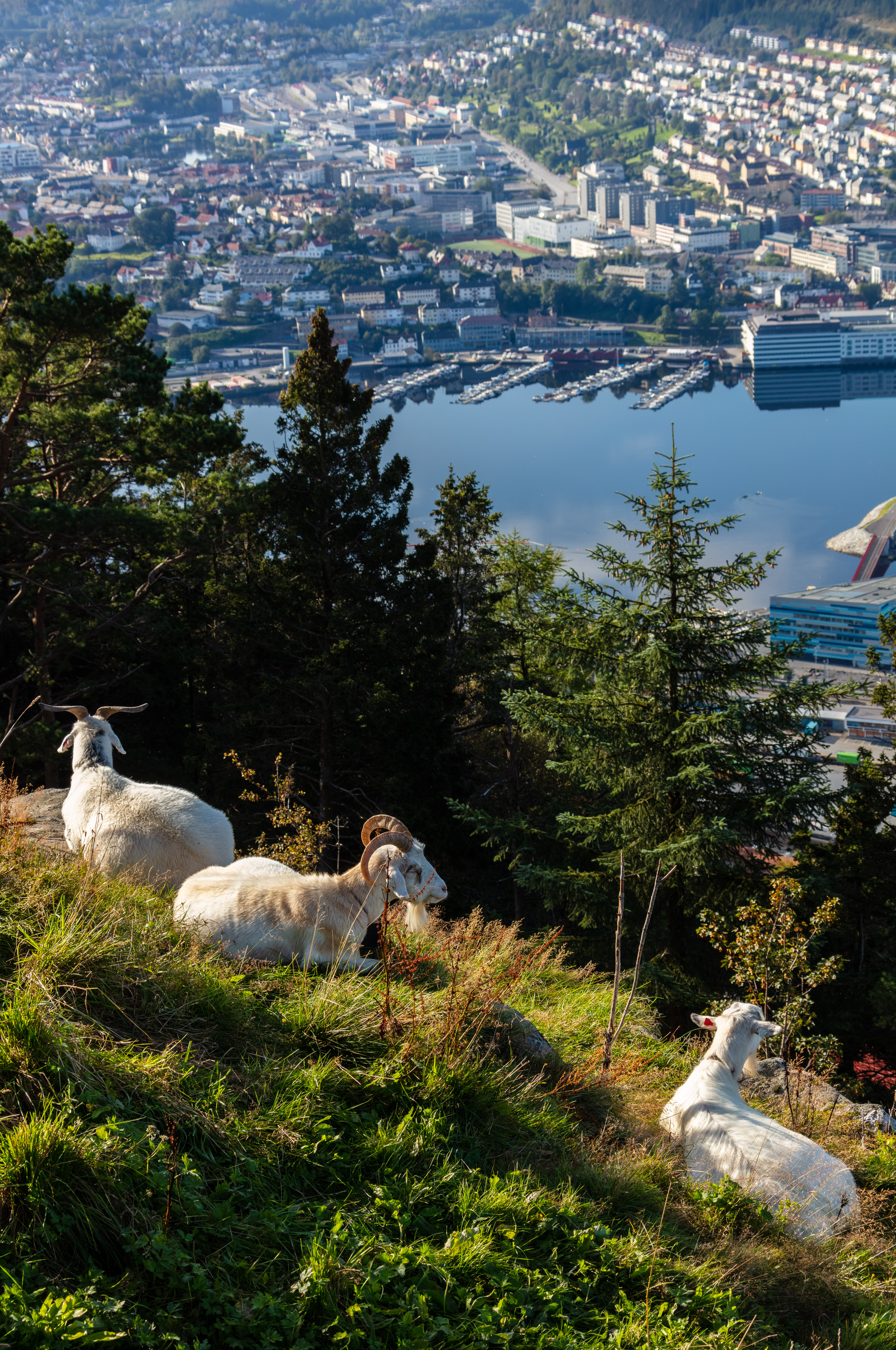 Goats (Capra aegagrus hircus), Mount Fløyen, Bergen, Norway